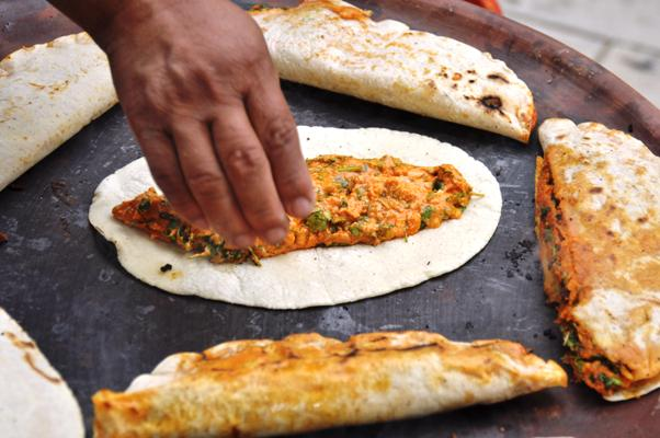 Empanadas de Amarillo